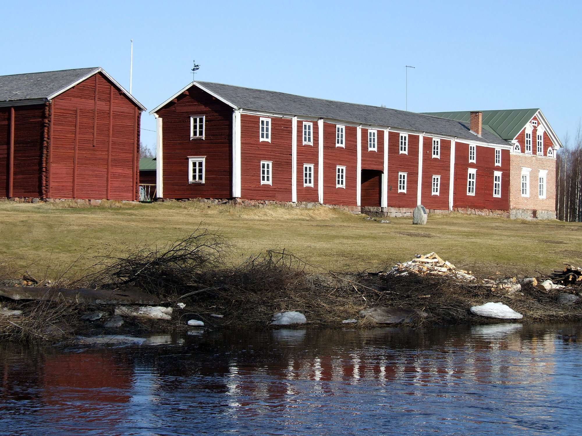 Pehkonen country house buildings in Alatemmes village in Liminka, Finland. The long red wooden building is a residence for the hired people of the farm.